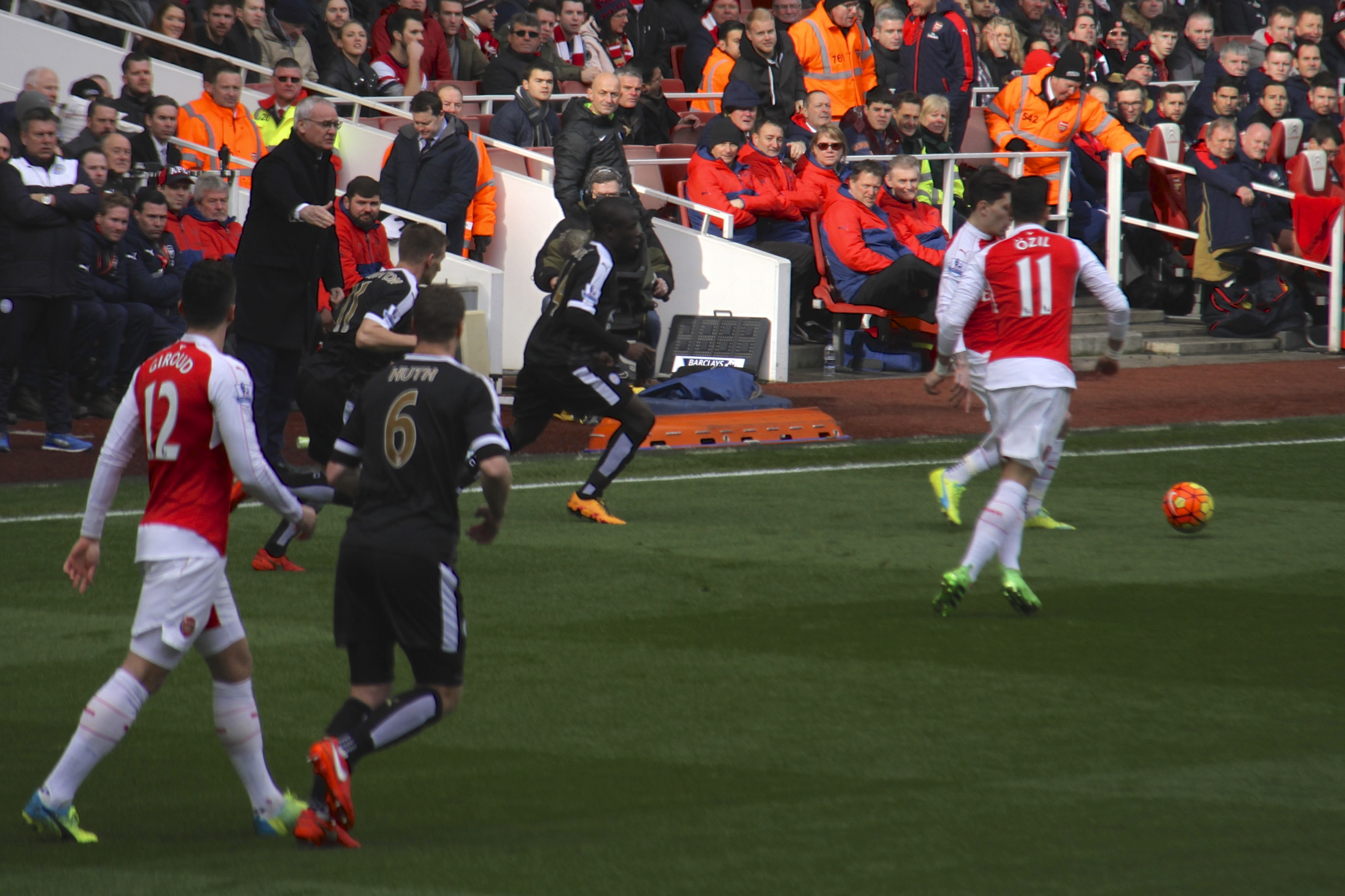 Giroud, Marc Albrighton, Robert Huth, N'Golo Kante and Mesut Ozil.